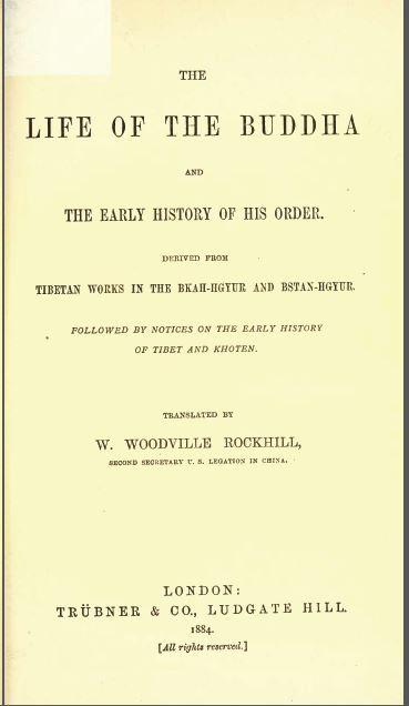 Life of the Budda